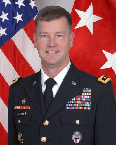 Official Command Photo for Lynn A. Collyar